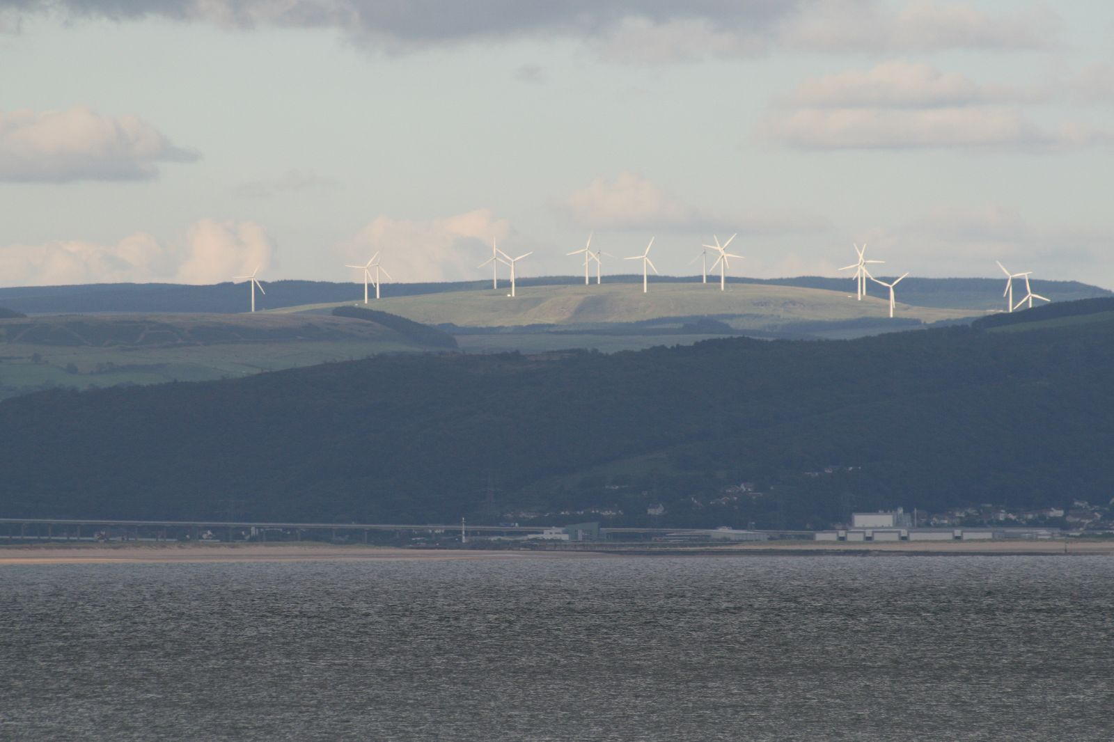 Wind Turbines over the Afan Valley about 15 - 20 miles in the distance from Mumbles